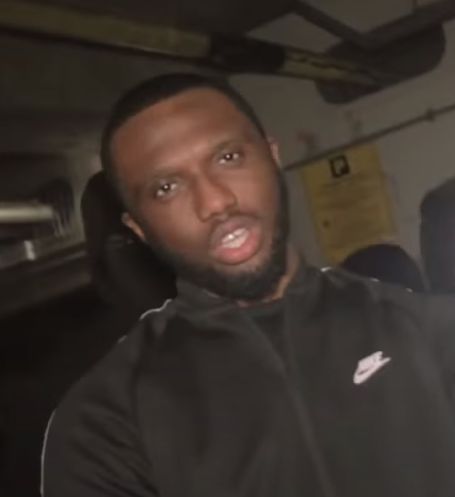 Headie One on Mixtape Madness